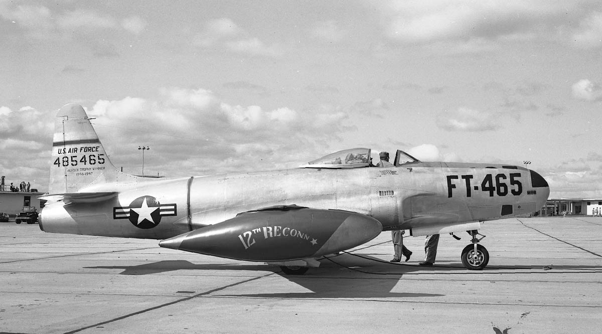 1947 Bendix Jet Race winner at Hamilton Field in March 1950.